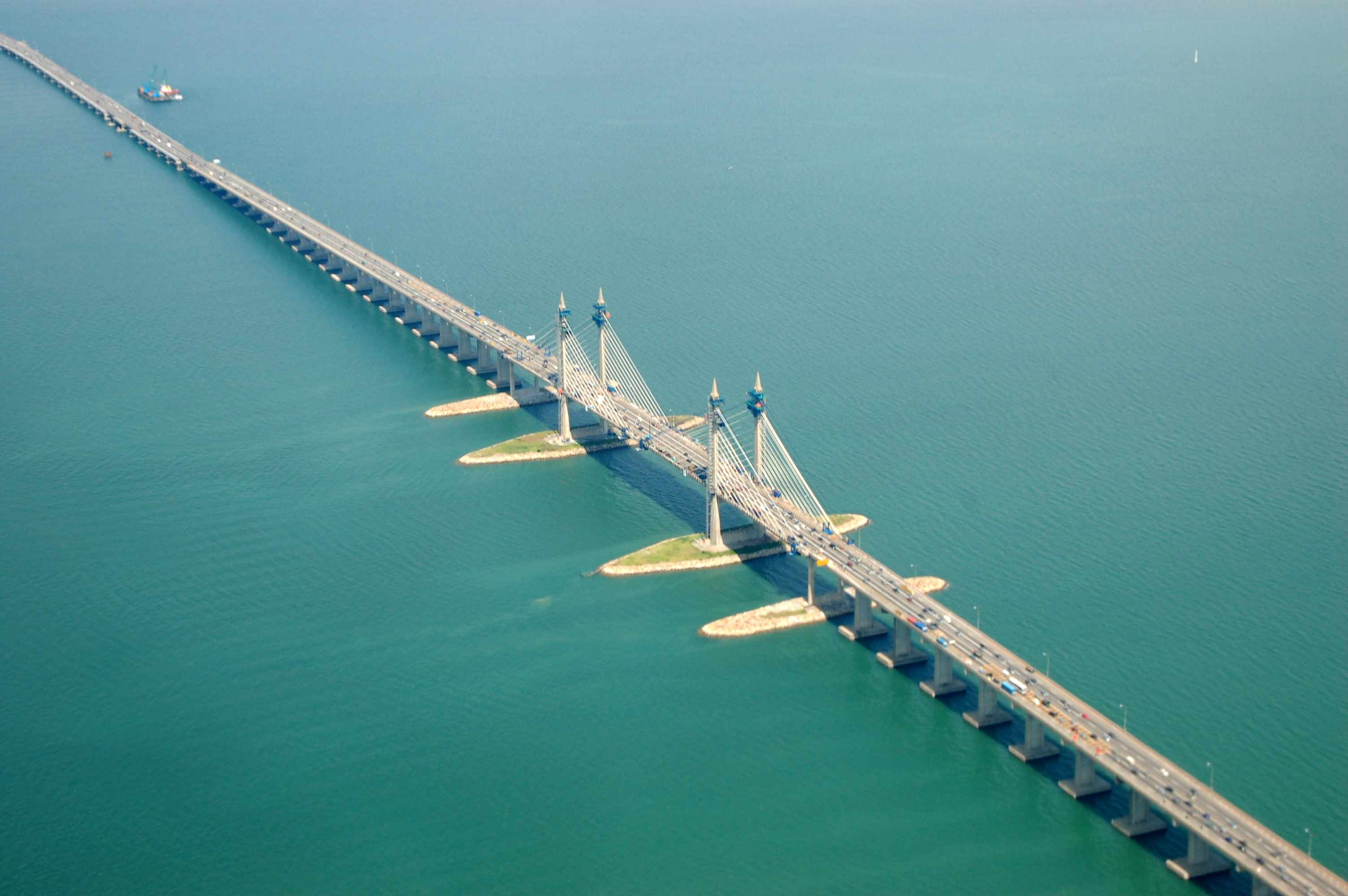 The Penang Bridge in Malisia